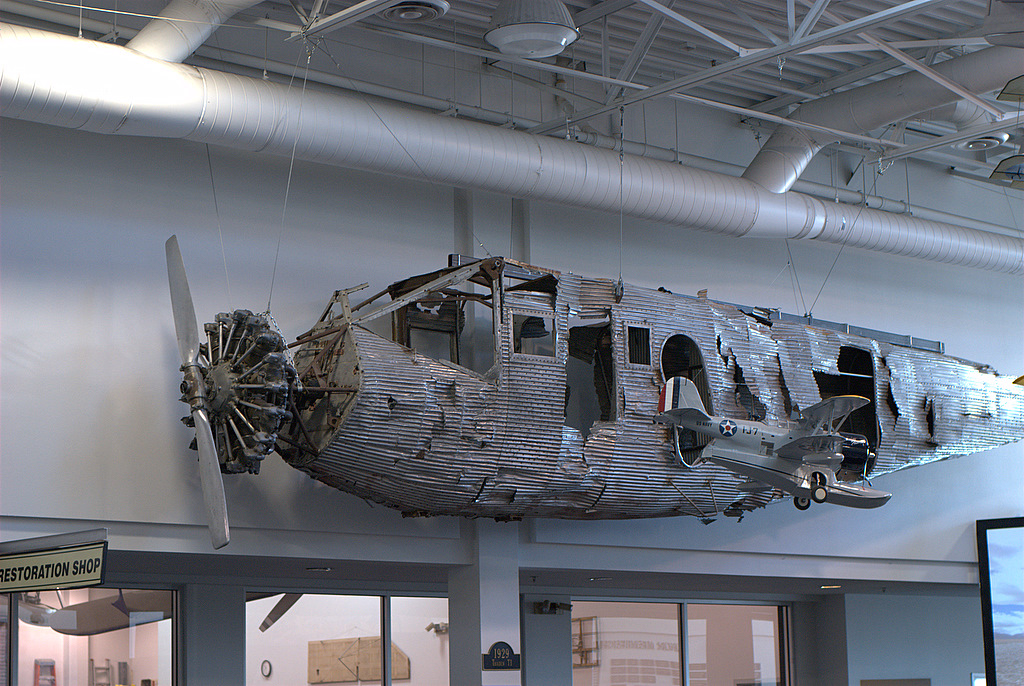 Interesting story to this plane that you'll have to visit to learn about